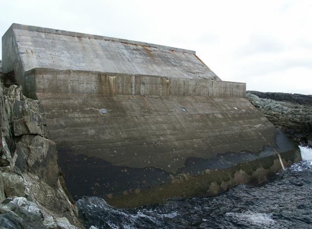 Wave energy power plant, Islay The LIMPET (Land Installed Marine Power Energy Transmitter) is the world's first commercial scale wave energy plant. It can supply up to 500kW and is connected to the national grid.